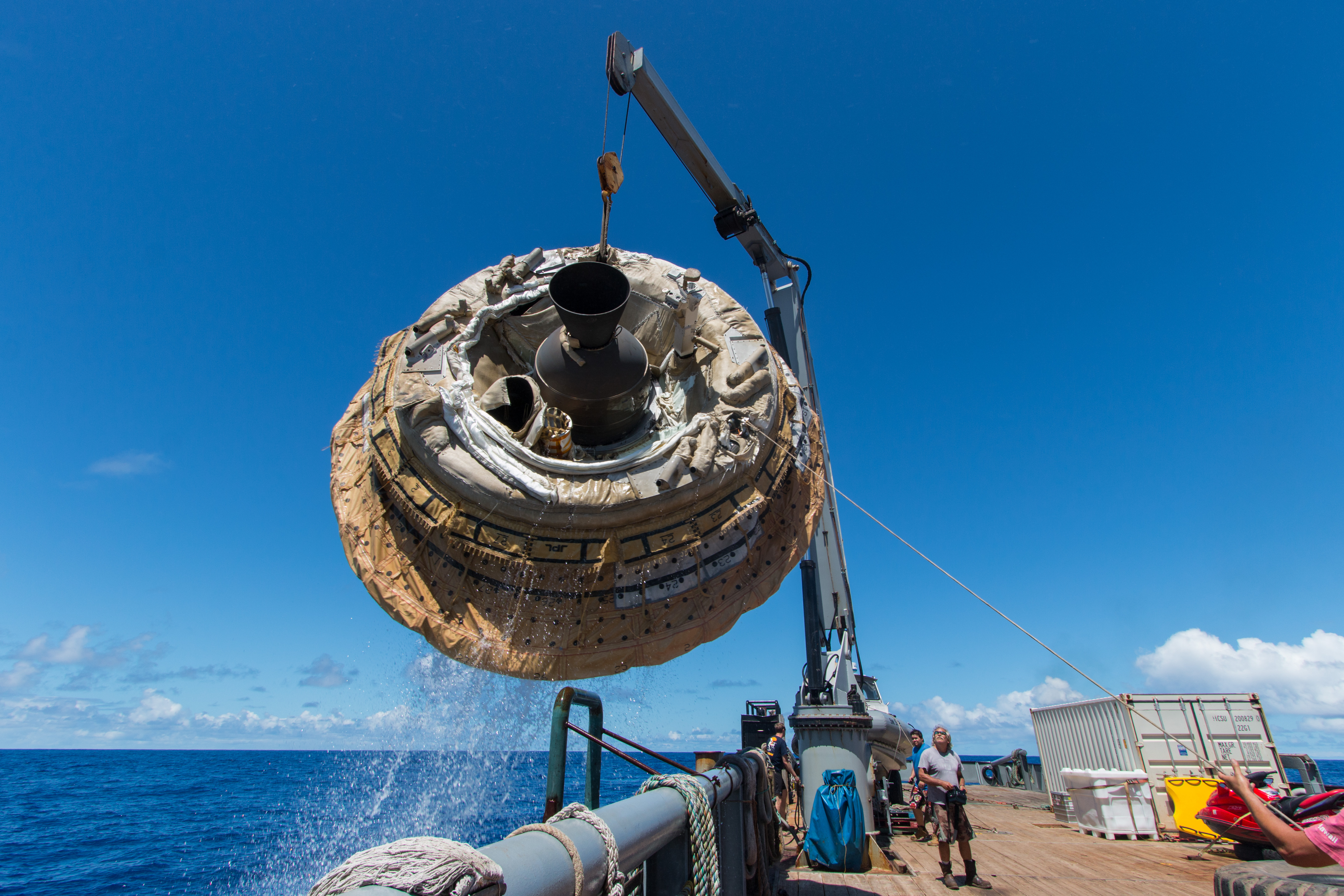 Hours after the June 28, 2014, test of NASA's Low-Density Supersonic Decelerator over the U.S. Navy's Pacific Missile Range, the saucer-shaped test vehicle is lifted aboard the Kahana recovery vessel.